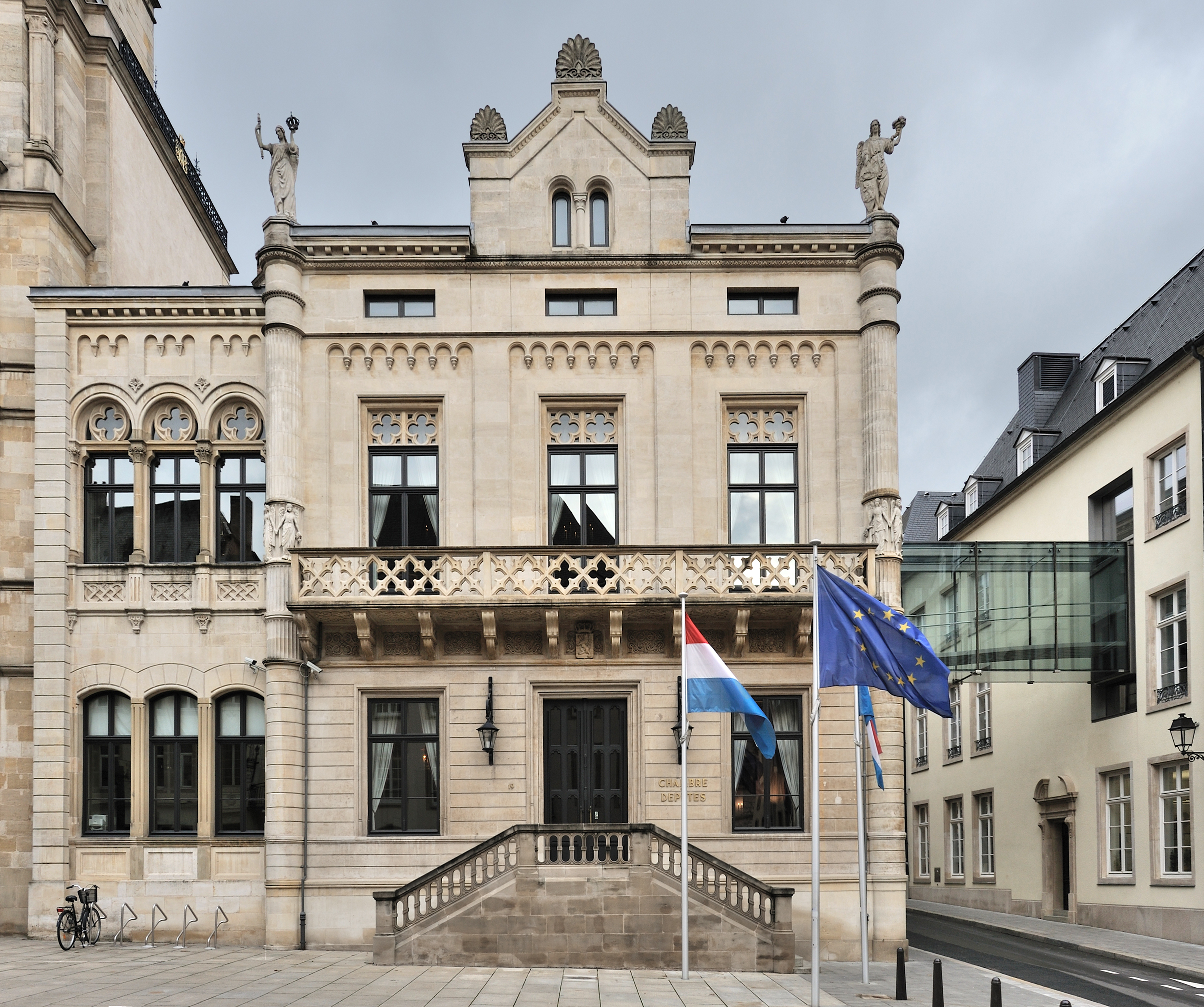 Luxembourg City: Chambre des députés, the Parliament of Luxembourg.